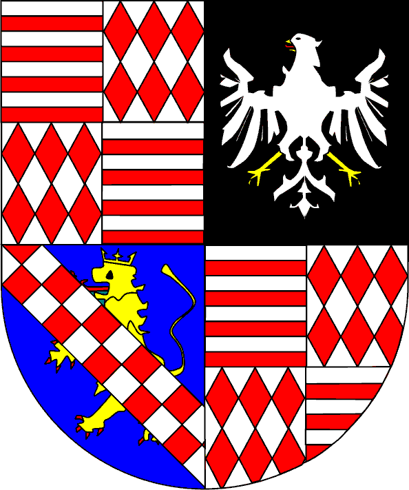 Coat of arms of the county of Vorder-Mansfeld; 1,3: county of Mansfeld/lordship of Querfurt; 2: county of Arnstein; 3: lordship of Heldrungen